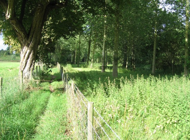 Footpath between the fields